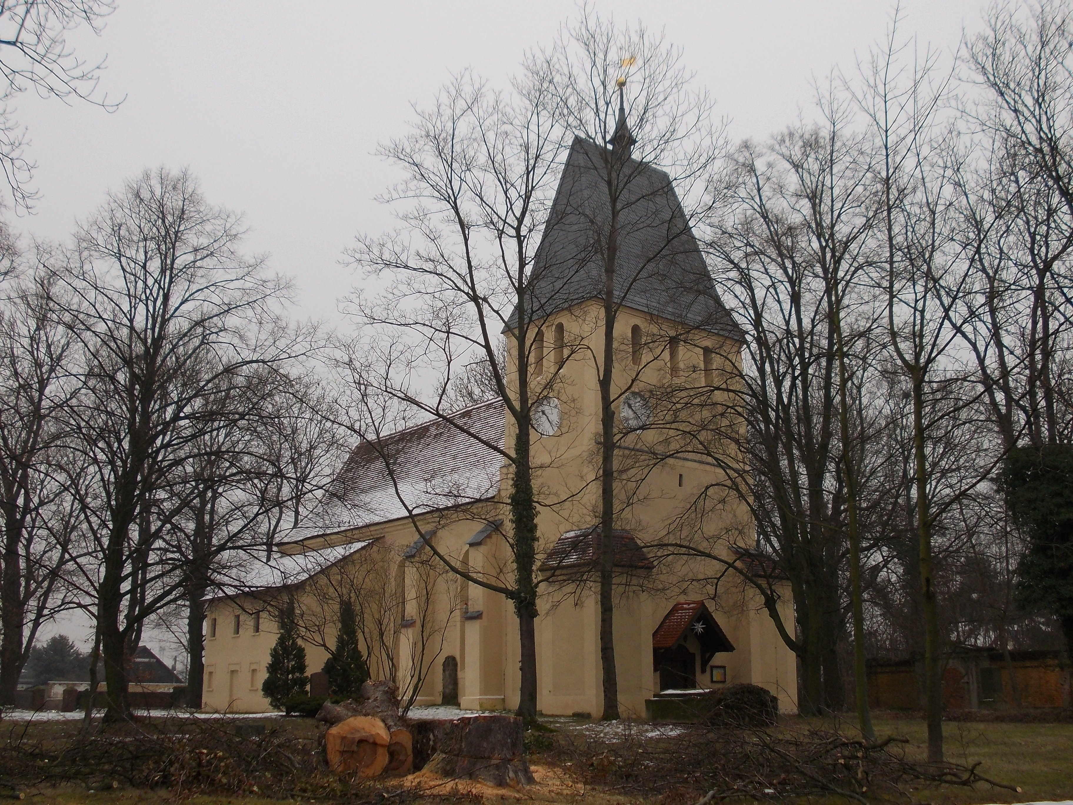 St. Nicholas' Church in Zschortau (Rackwitz, Nordsachsen district, Saxony) from the north-west